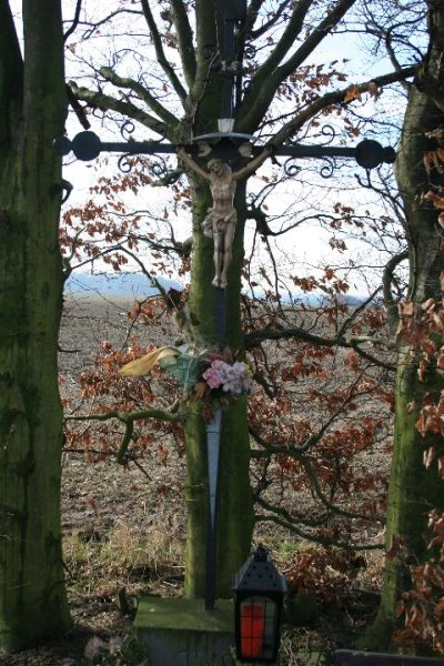 Cultural heritage monument No. 56 in Gangelt